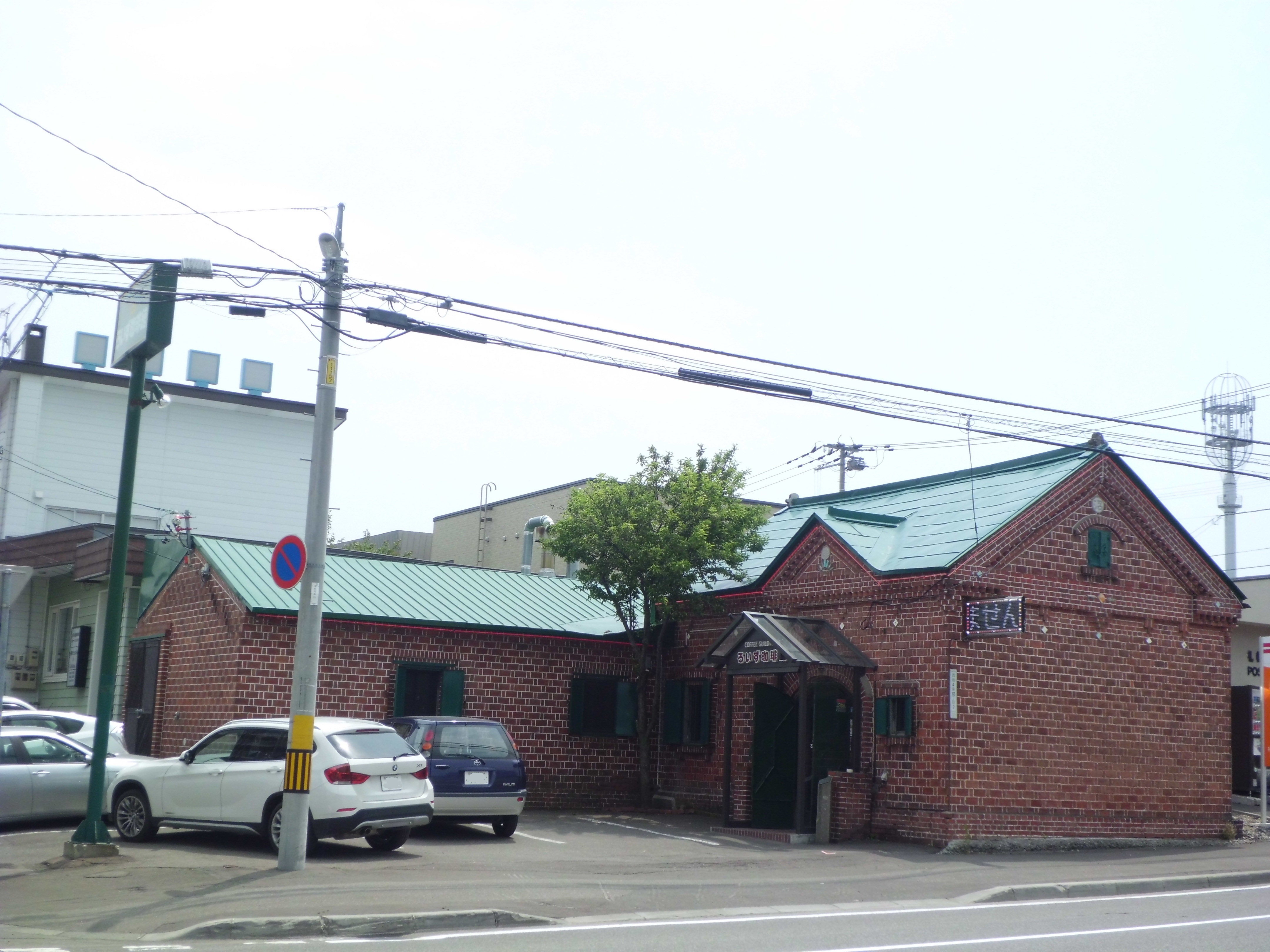 Lloyd's Coffee Nishioka